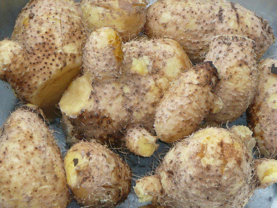 Ignames -Bandrefam-Cameroun